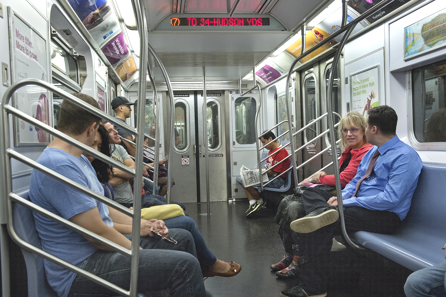 MTA Chairman and CEO Thomas Prendergast joins elected officials to dedicate the new 34 St-Hudson Yards station on Sun., September 13, 2015, which extends the 7 line to the West Side. Photo: Metropolitan Transportation Authority / Patrick Cashin